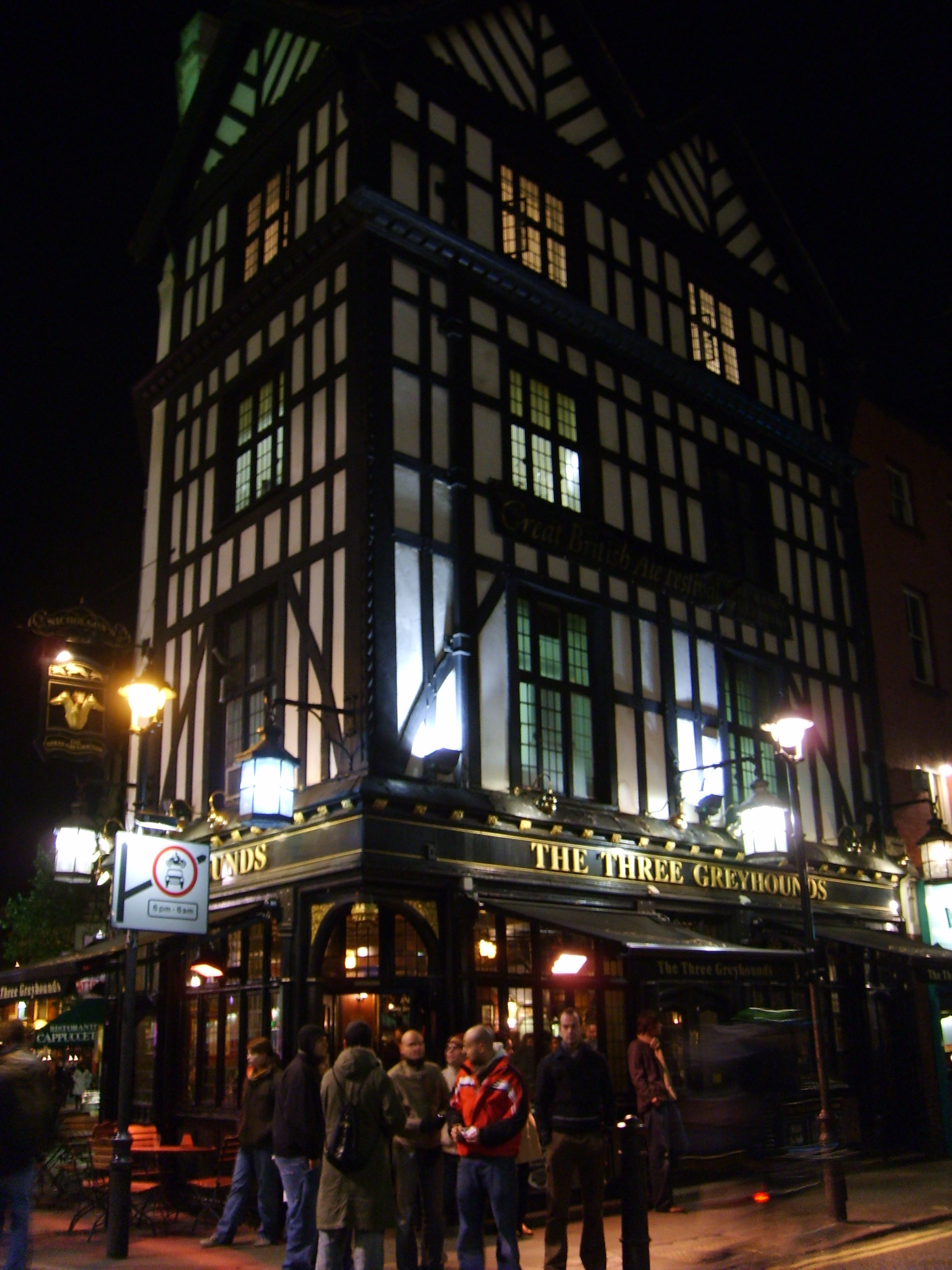 The Three Greyhounds